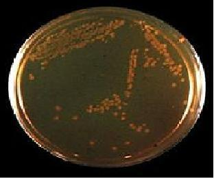 Hektoen Enteric Agar